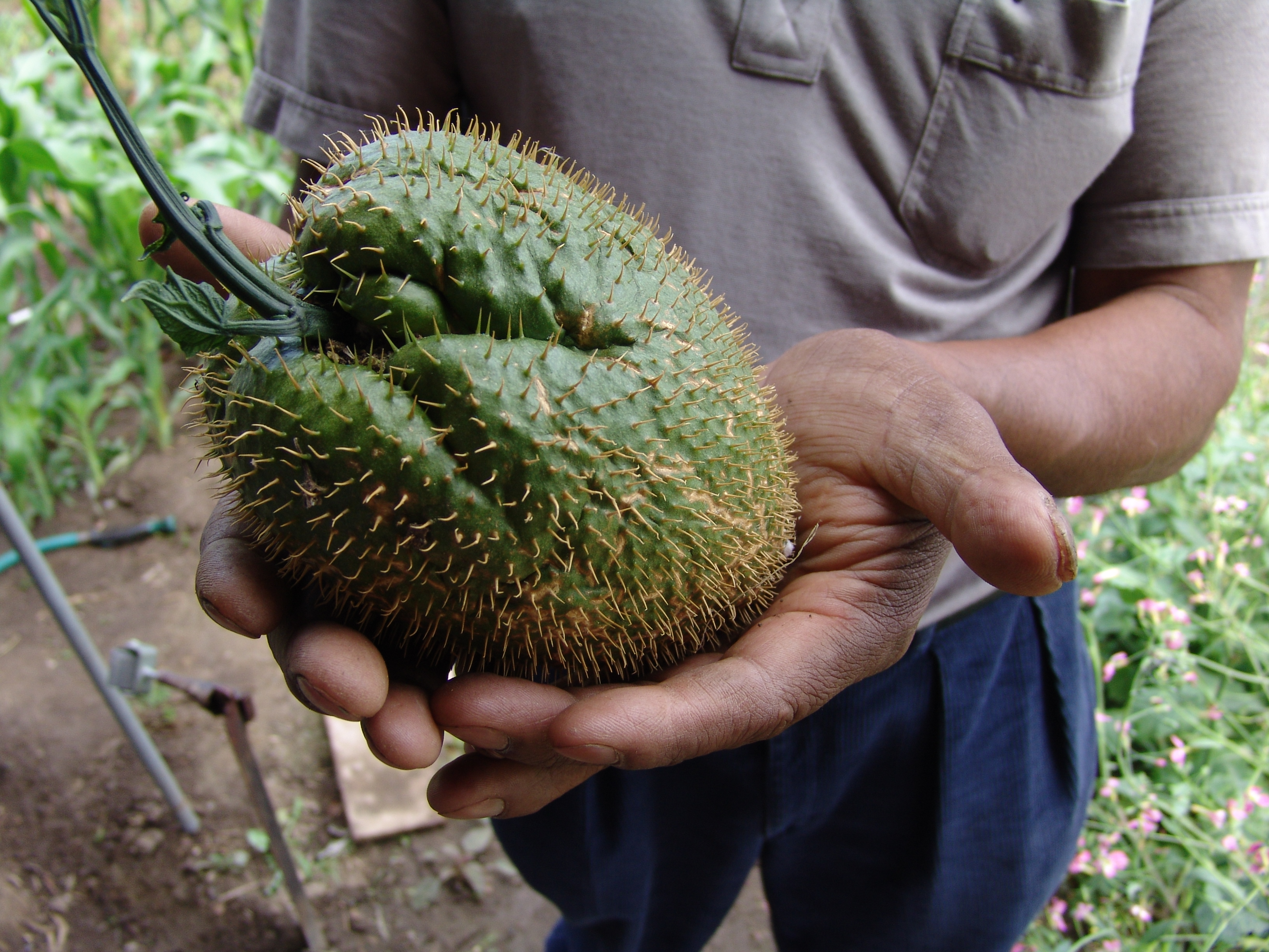 A Chayote at the South Central Farm in the city of Los Angeles California. The 14 acres located at 41st and Alameda St. is one of the largest urban gardens in the United States.